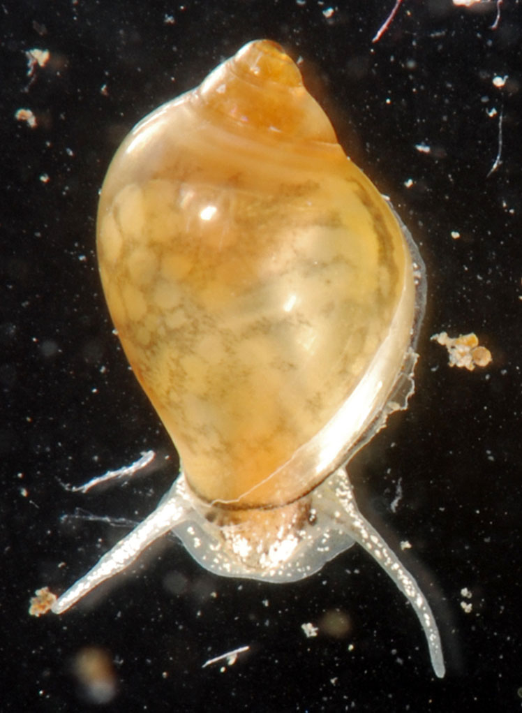 5mm. Pohick Bay/Gunston Cove, Fairfax County, VA - 09/13/16.